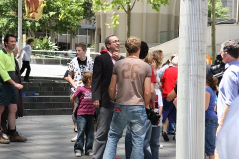 Julian Morrow a member of the Australian Broadcasting Corporation satirical team The Chaser's War on Everything at Martin Place after filming a special for Christmas.